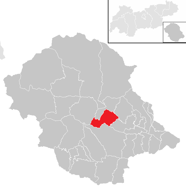 District Lienz